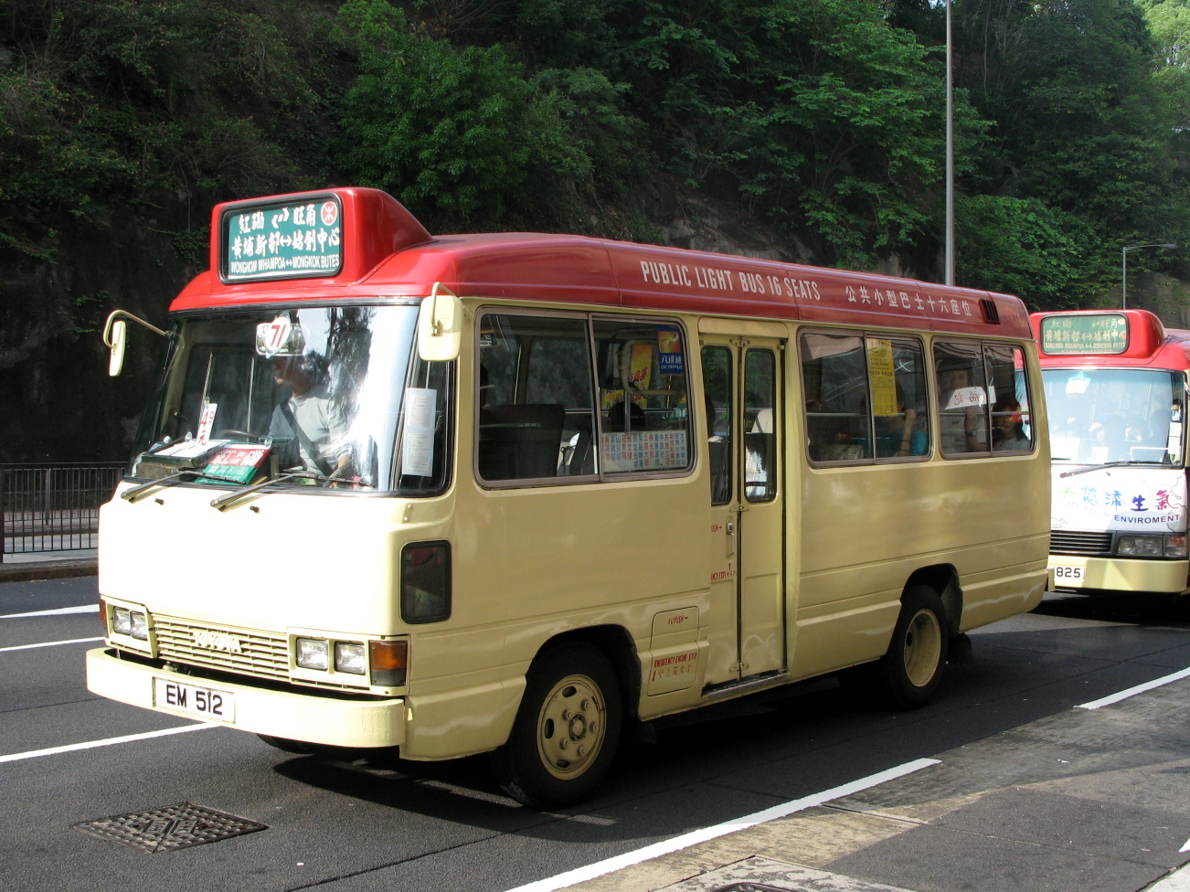 HK Toyota 1990s MiniBus